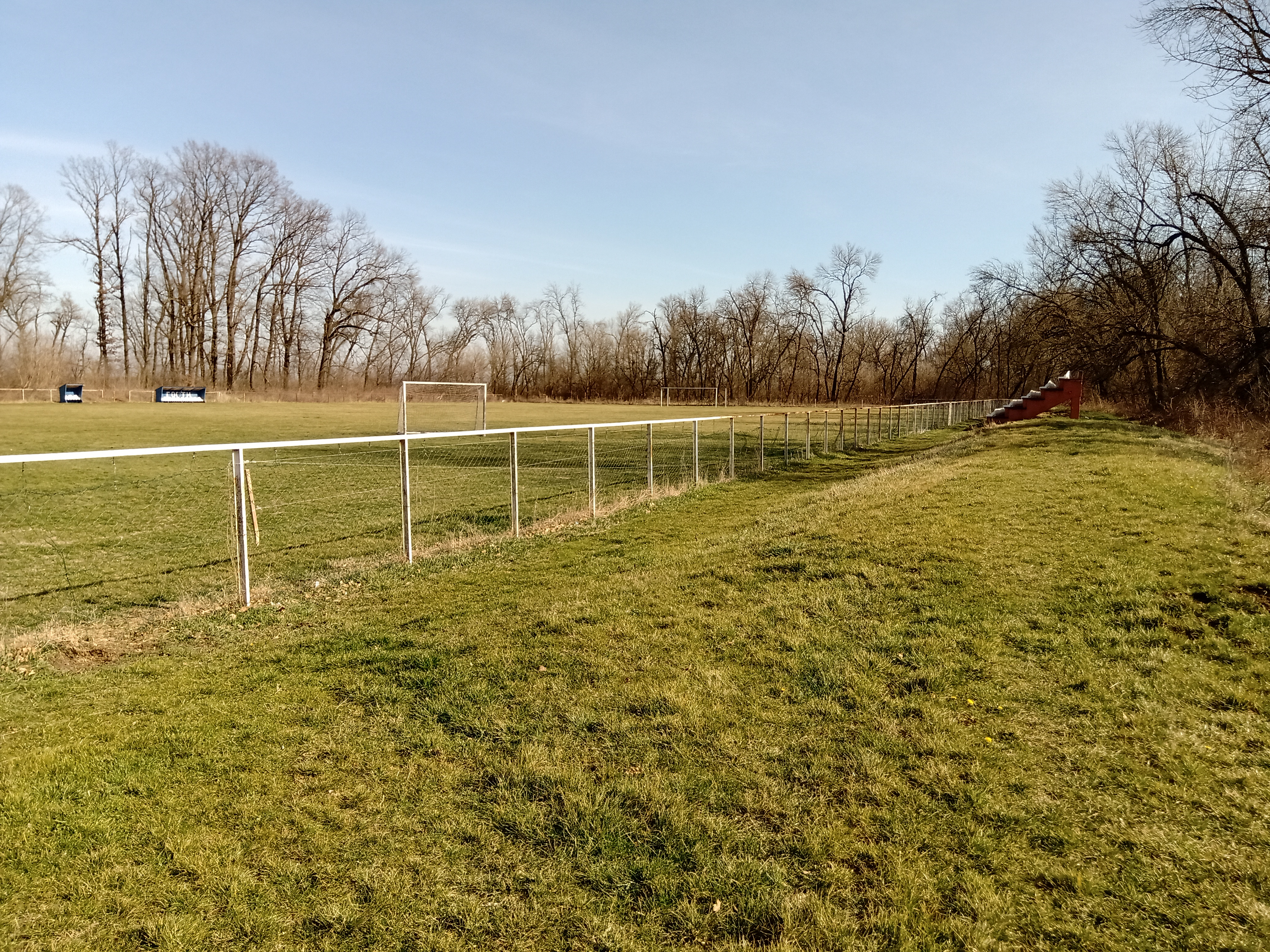 Терен ФК Пионир